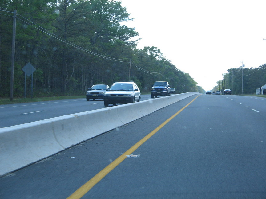 A mini "Jersey Barrier" on Route 322